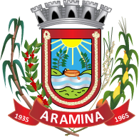 Coat of Arms of the city of Aramina, São Paulo state, Brazil.